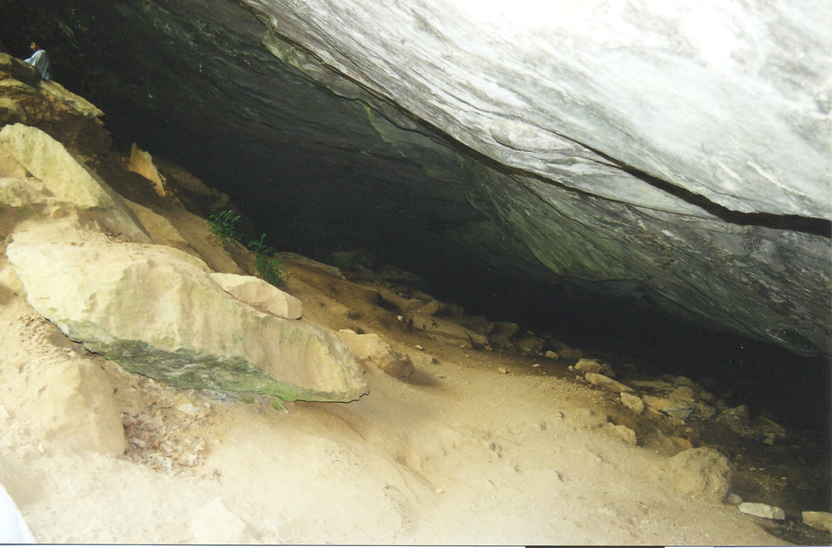 Saltpeter Cave near Natural Bridge (Virginia)